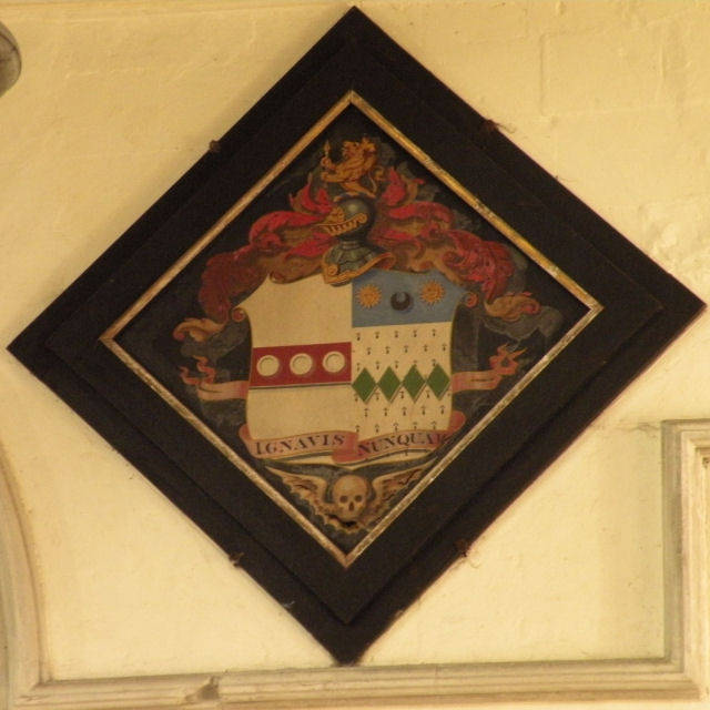 Hatchment of Rev. George Leonard Jenyns (1848). He was the husband of the lady of 1061743, so the arms should be the same, apart from the motto. That they are not is blamed on the painter of this one. "Ignavis nunquam" = "Never for the idle", apparently.